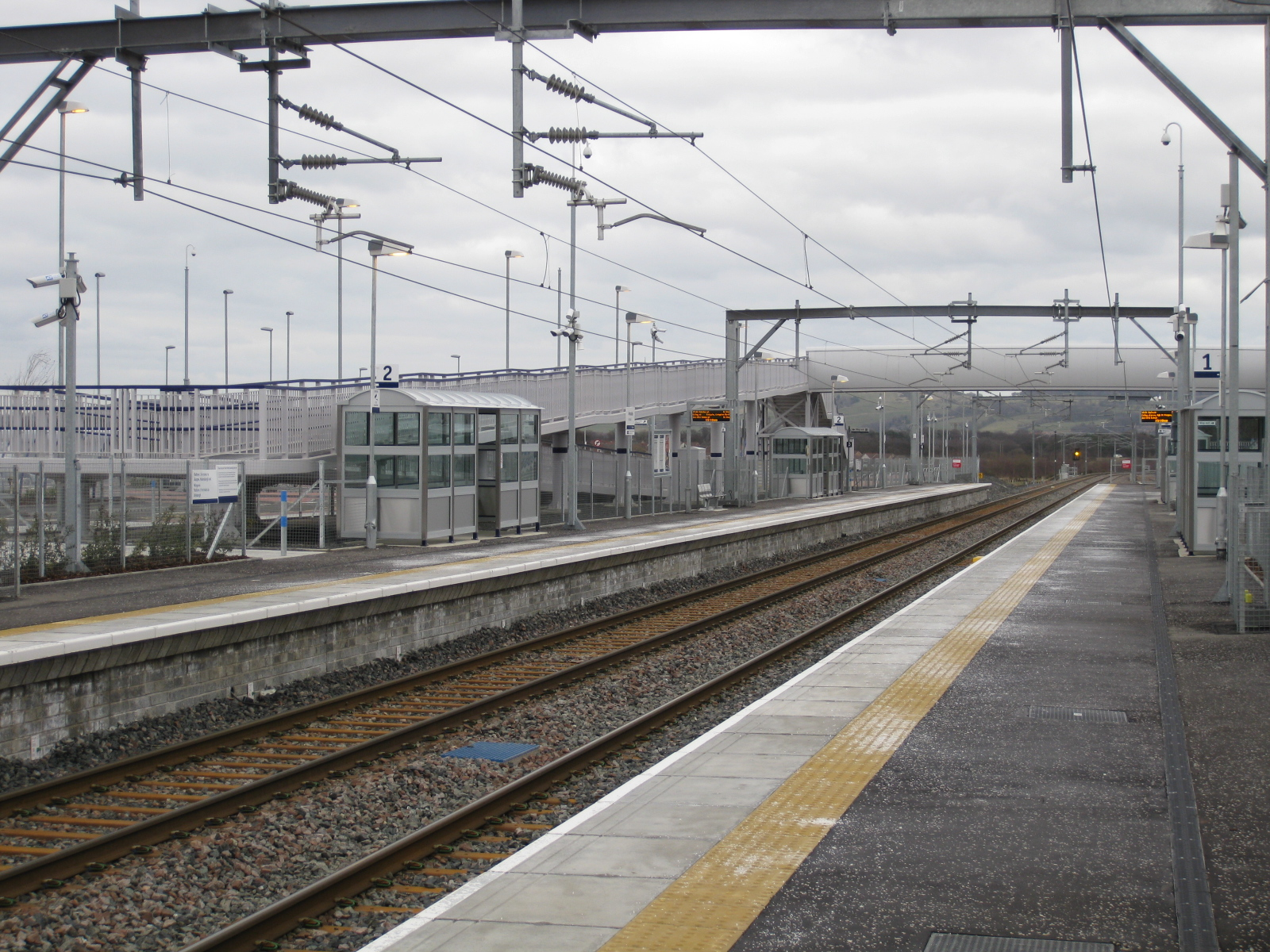 Armadale railway station in Scotland (looking east), 19 March 2011.